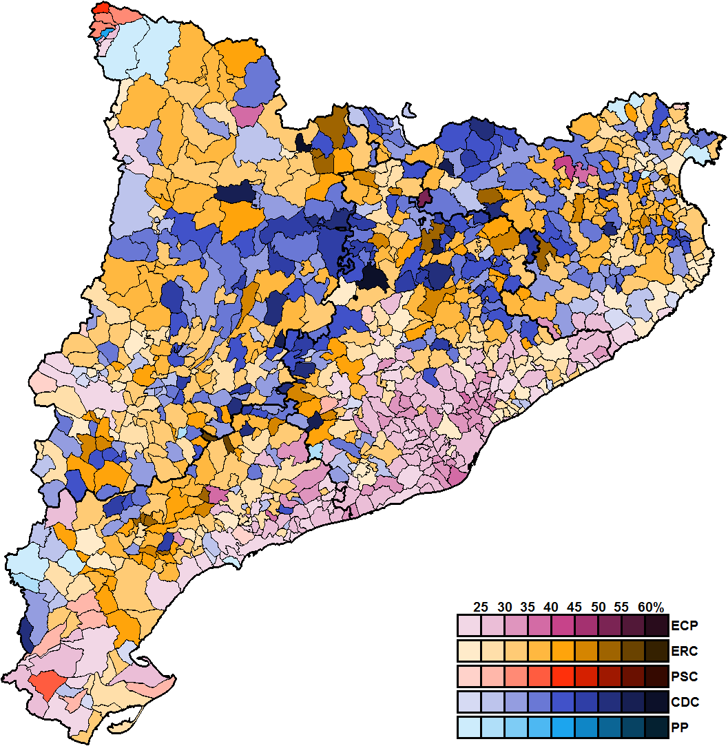 Most-voted party in Catalonia municipalities, showing vote share obtained, in the Spanish general election, 2016.